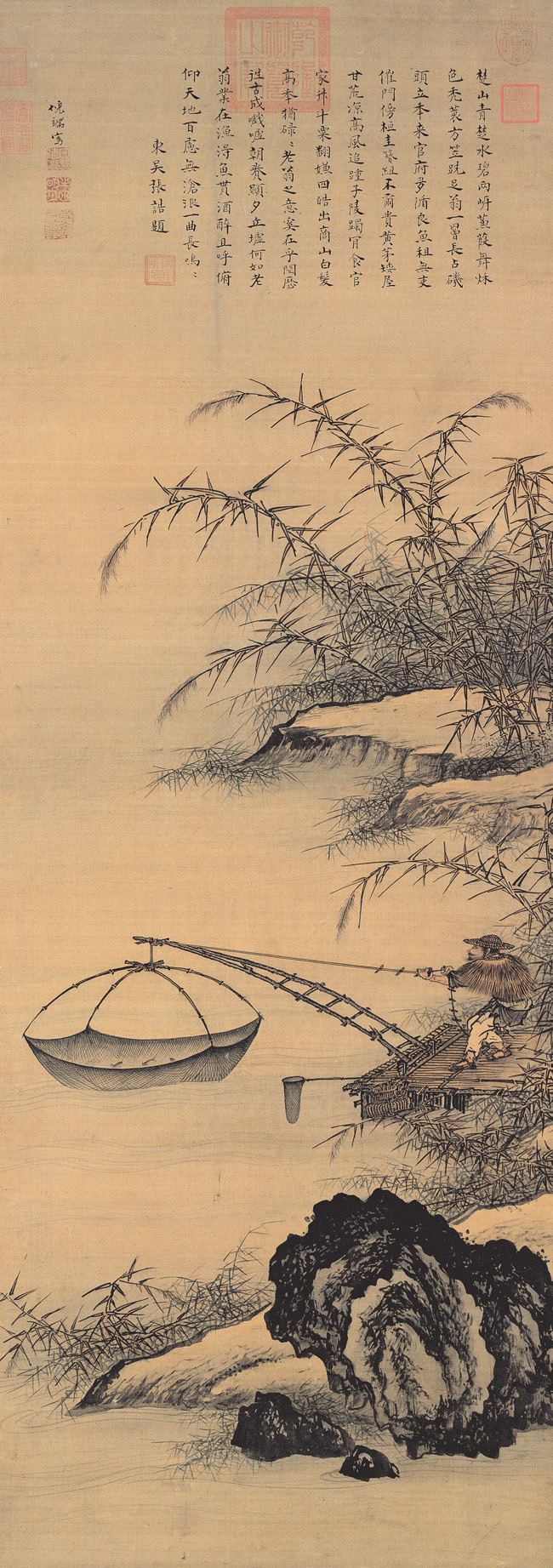 Catching Fish, hanging scroll, color on silk, 117.8 x 42.3 cm. Located at the National Palace Museum, Taibei.